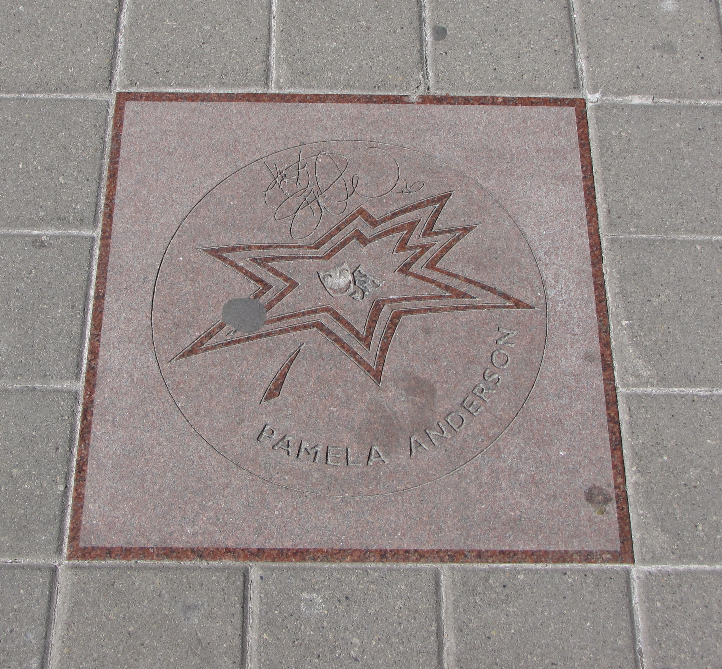 Pamela Anderson's star on Canada's Walk of Fame